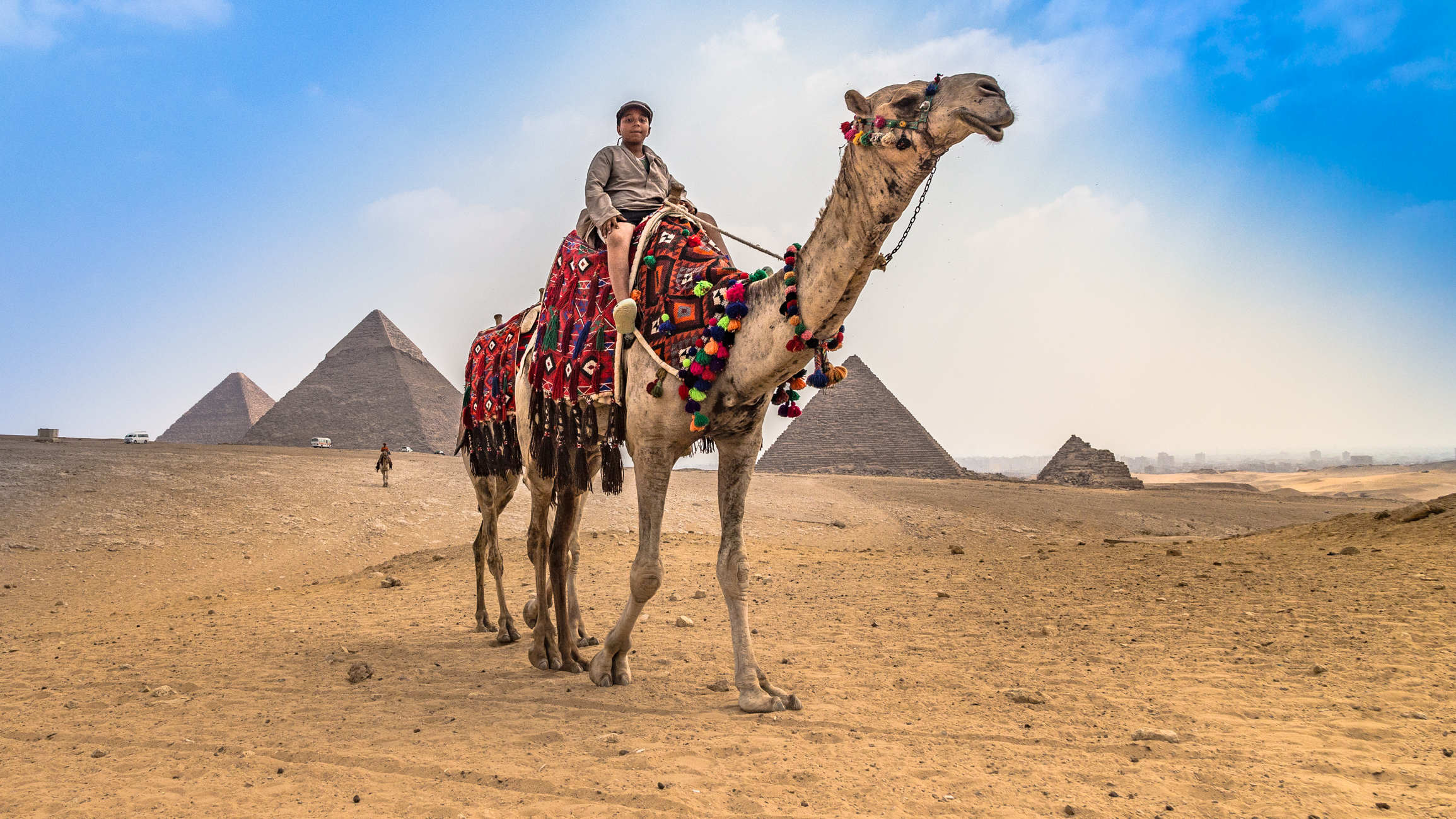 Camel is still the best way to move through history This is an image with the theme "Africa on the Move or Transport" from: Egypt